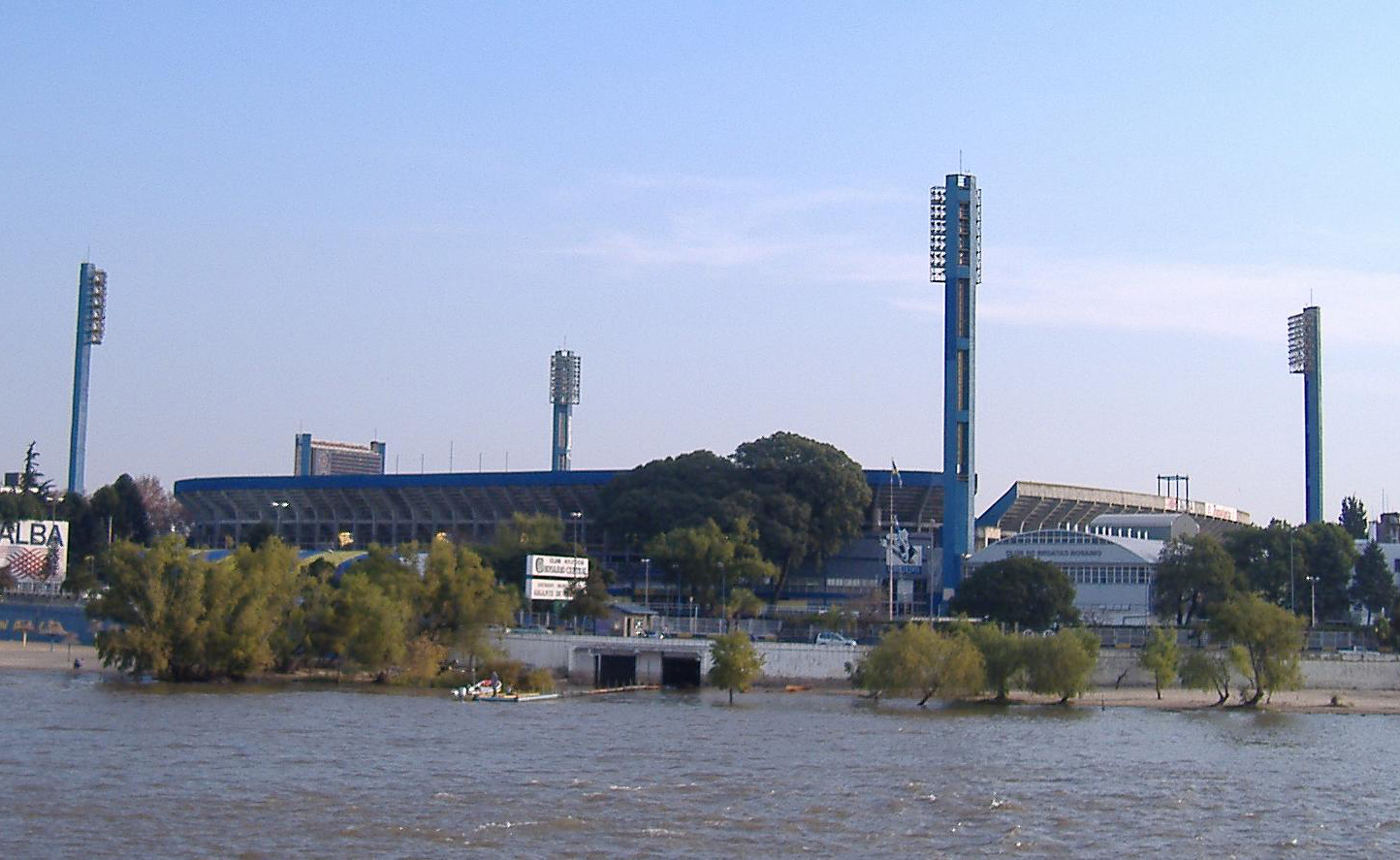 Estadio Gigante de Arroyito, a football stadium belonging to the Rosario Central football (soccer) club in Rosario, Argentina. Viewed from a boat on the Paraná River.